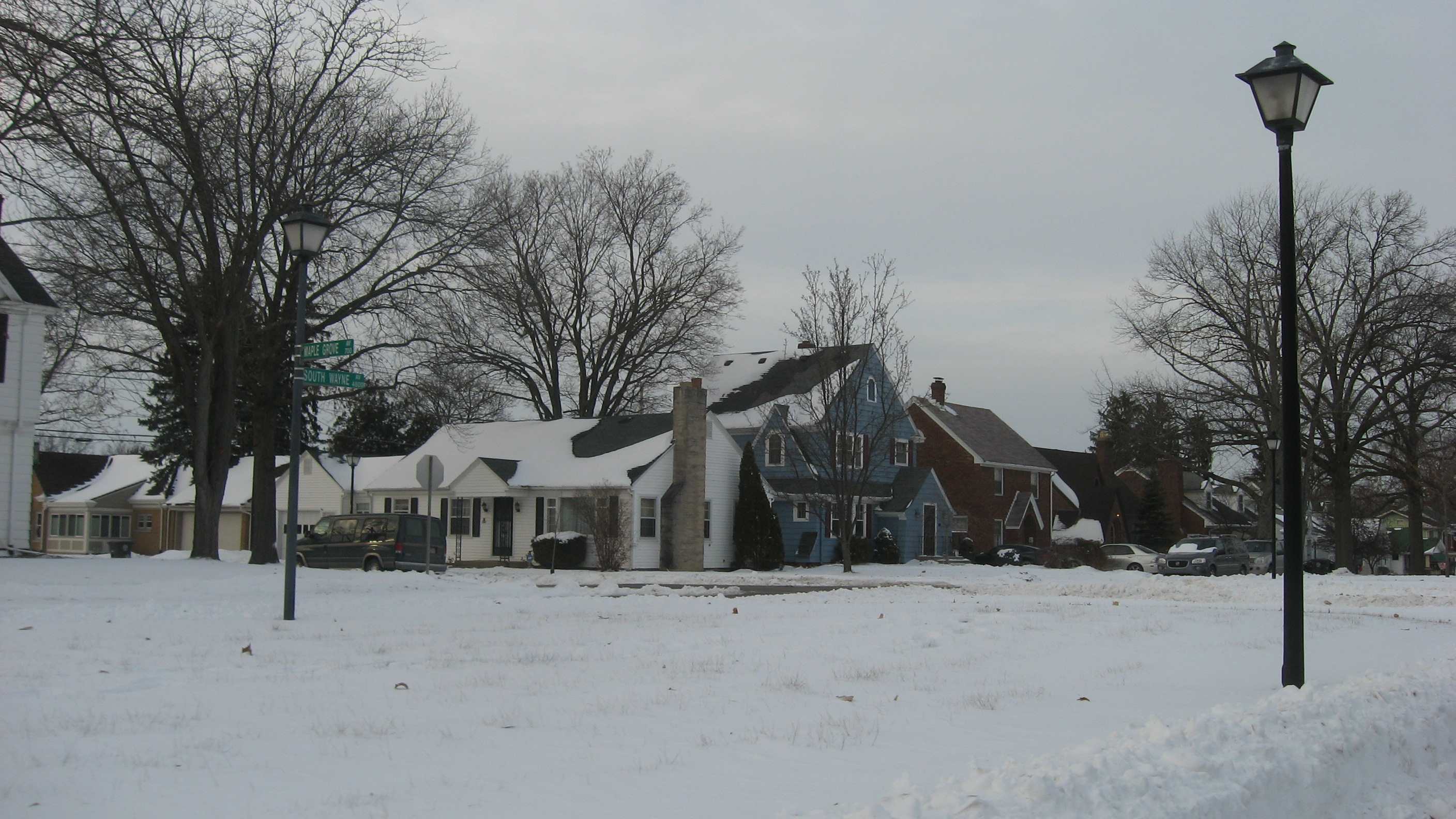 Looking west-northwest from the intersection of S. Wayne and W. Maple Grove Avenues in Fort Wayne, Indiana, United States. This block is part of the Southwood Park Historic District, a historic district that is listed on the National Register of Historic Places.